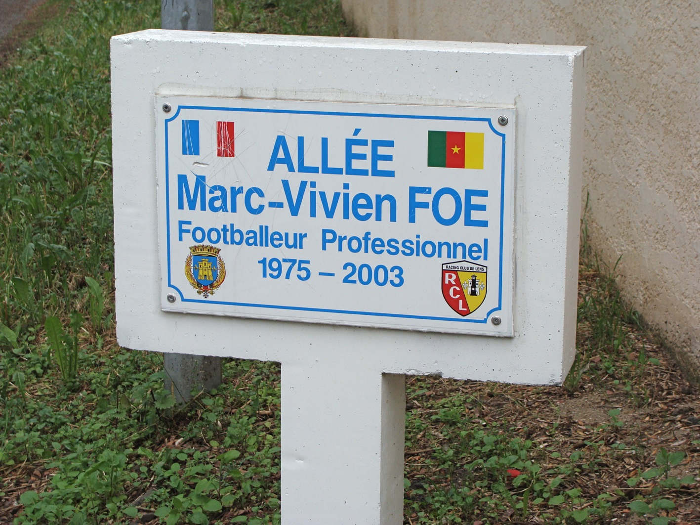 Marc Vivien Foé driveway (Lens)